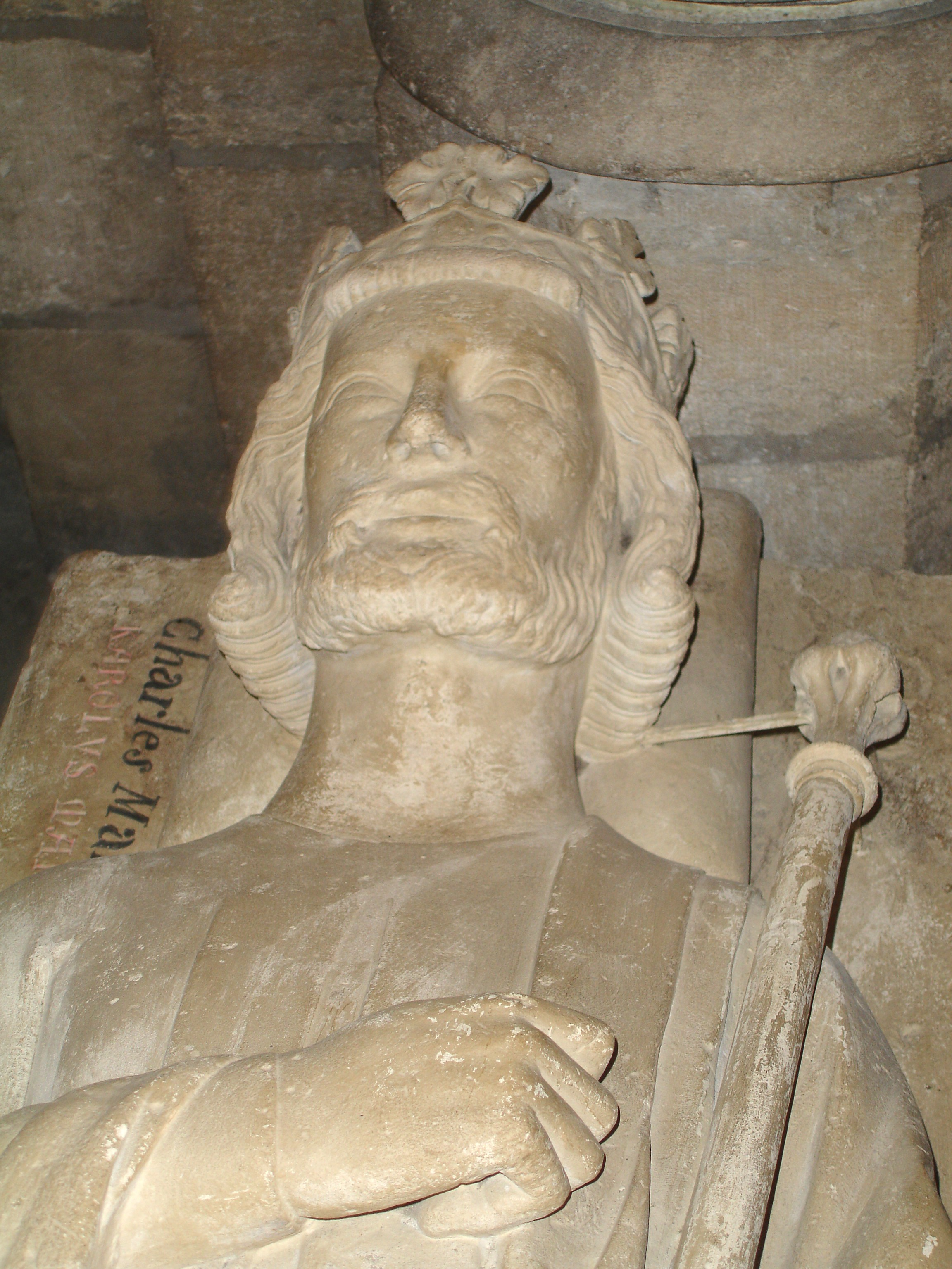 Tomb of Karl Martell in St.Denis/France